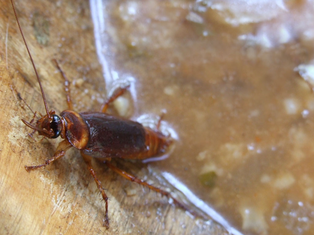 Periplaneta americana, American cockroach